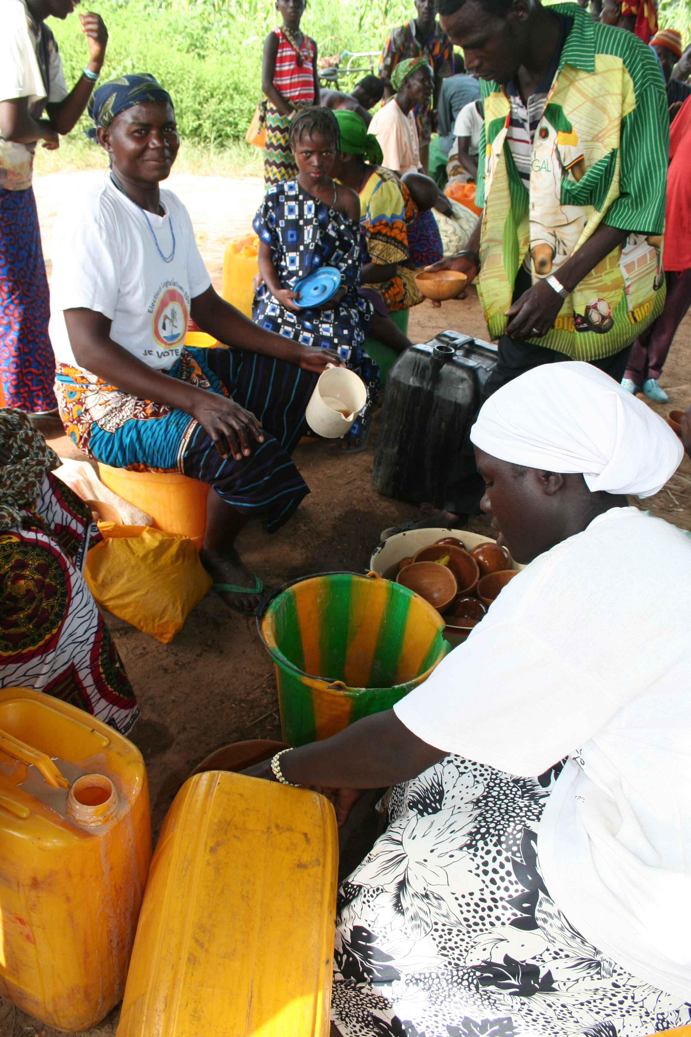 serving Sorghum beer (Dolo) on a Market in Tapoadjerma, Burkina Faso